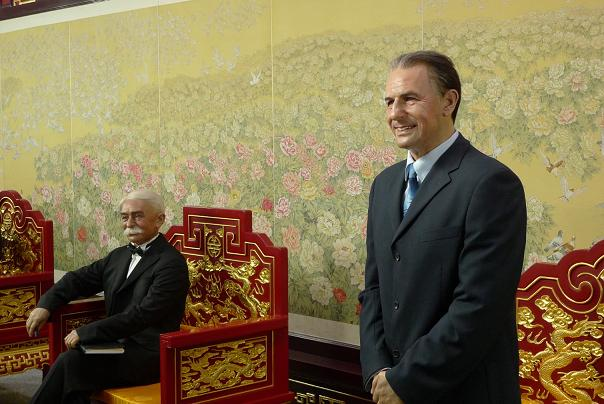 IOC President Jacques Rogge with Pierre DeCoubertin. (ATR / Panasonic:Lumix)